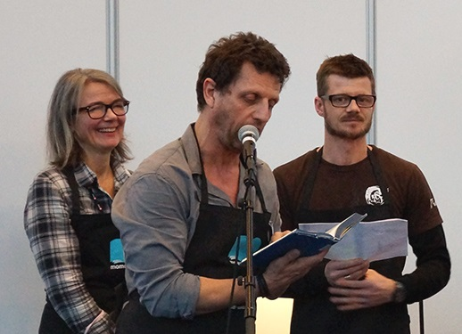 Danish actors Vibeke Hastrup, Søren Hauch-Fausbøll og Thomas Magnussen in 2012